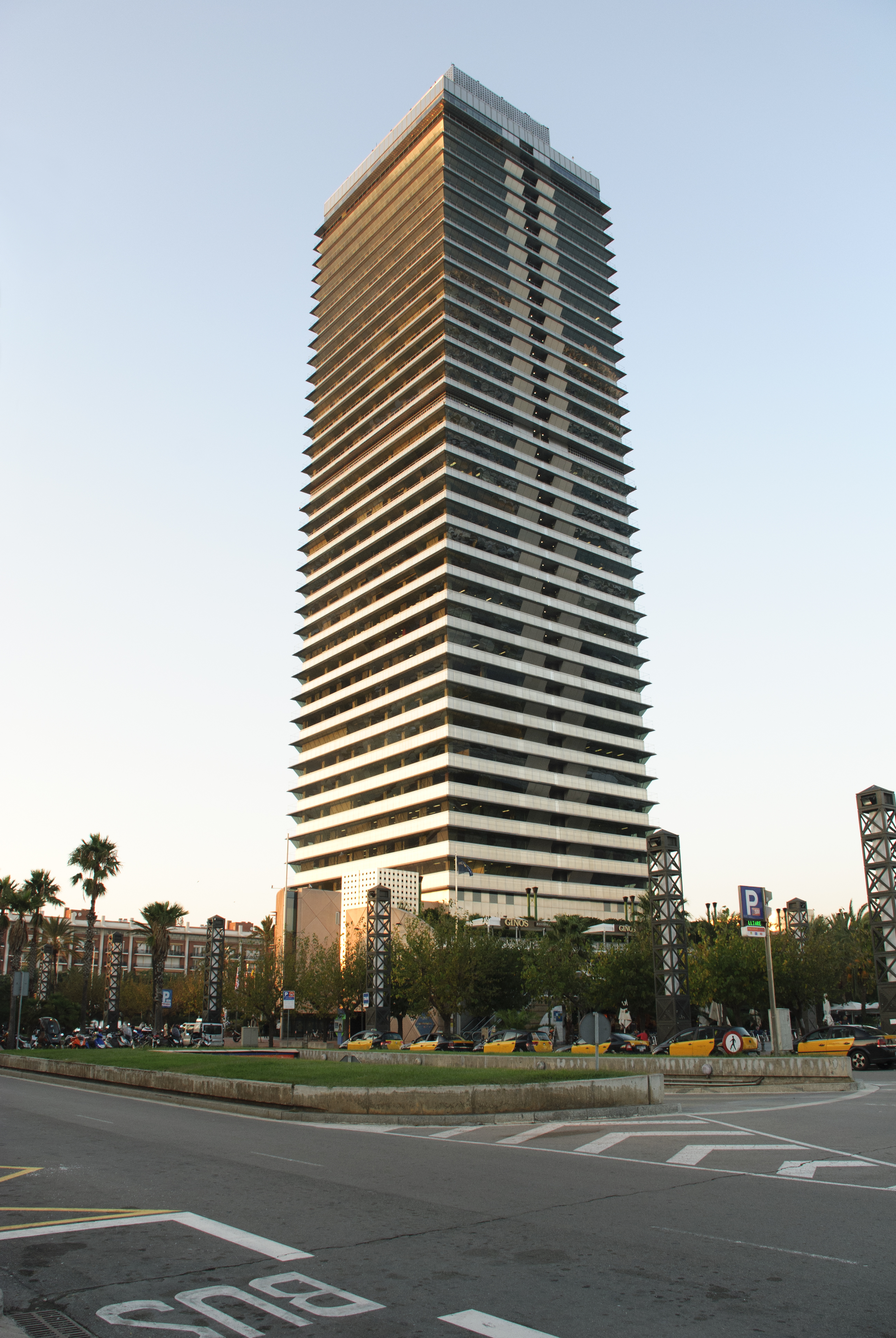 Barcelona Mapfre tower